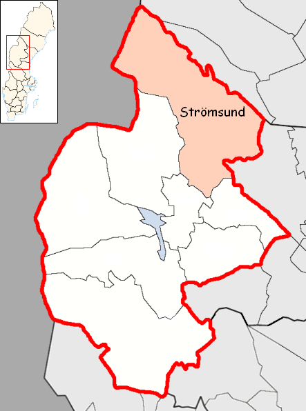 Strömsund Municipality in Jämtland County Designd by me, based on Image:Jämtland County.png